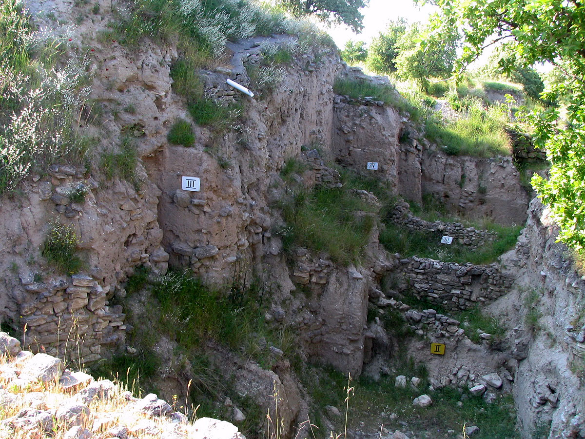 Showing the different layers of Troy